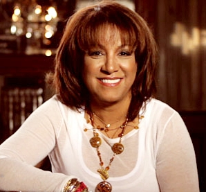 Milly Quezada in Acceso Total.